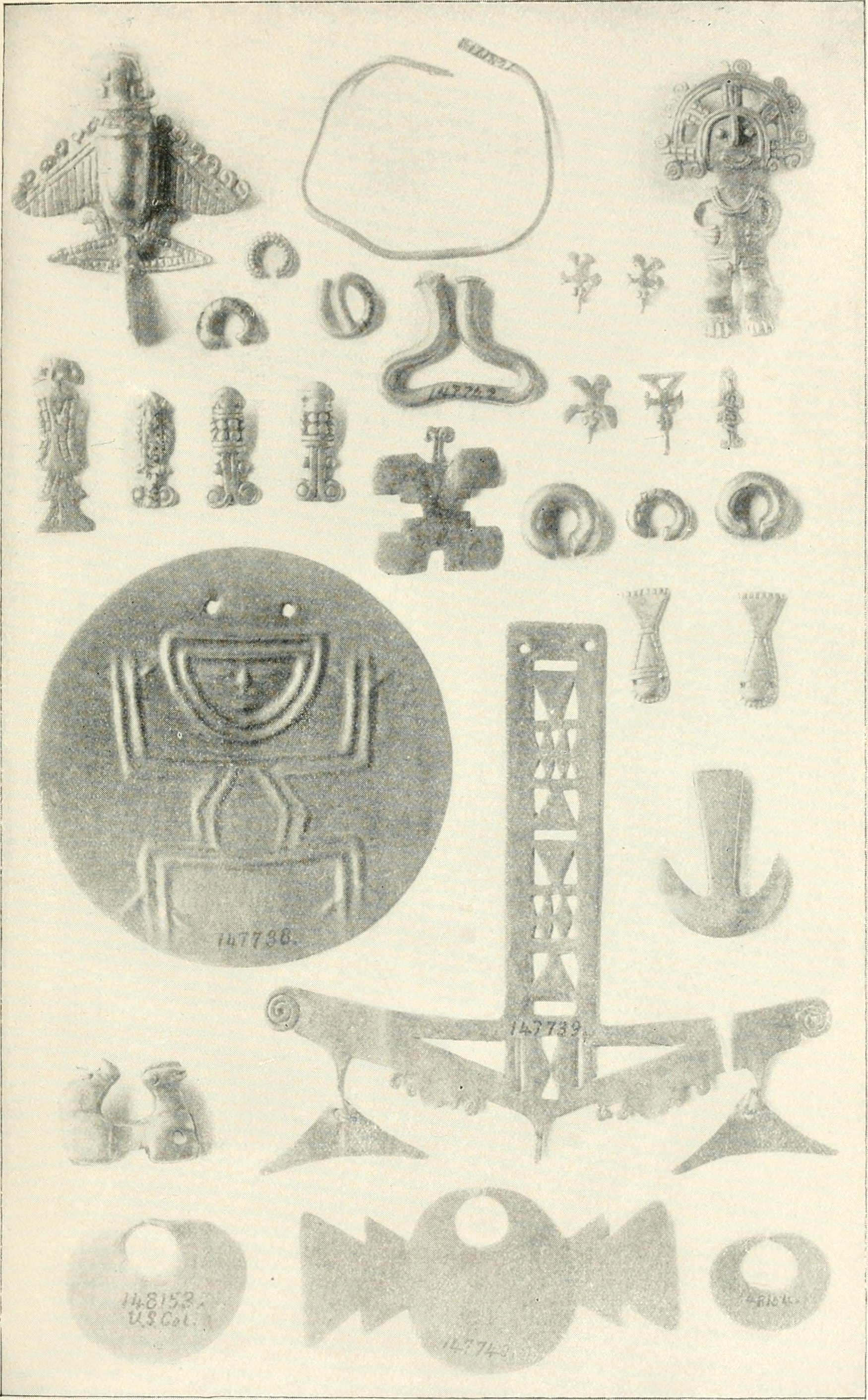 Title: Annual report of the Board of Regents of the Smithsonian Institution Year: 1846 (1840s) Authors: Smithsonian Institution. Board of Regents; United States National Museum. Report of the U. S. National Museum; Smithsonian Institution. Report of the Secretary Subjects: Smithsonian Institution; Smithsonian Institution. Archives; Discoveries in science Publisher: Washington : Smithsonian Institution Text Appearing Before Image: Report of U S, National MuseuTi, I 896. —Wilson Plate 65. Text Appearing After Image: Gold Objects from Quimbaya, Antioquia, Colombia, South America. Some are casts and some originals. Car. Nos. 14r7:!K-147746, U.S.N.M. iV natural size.